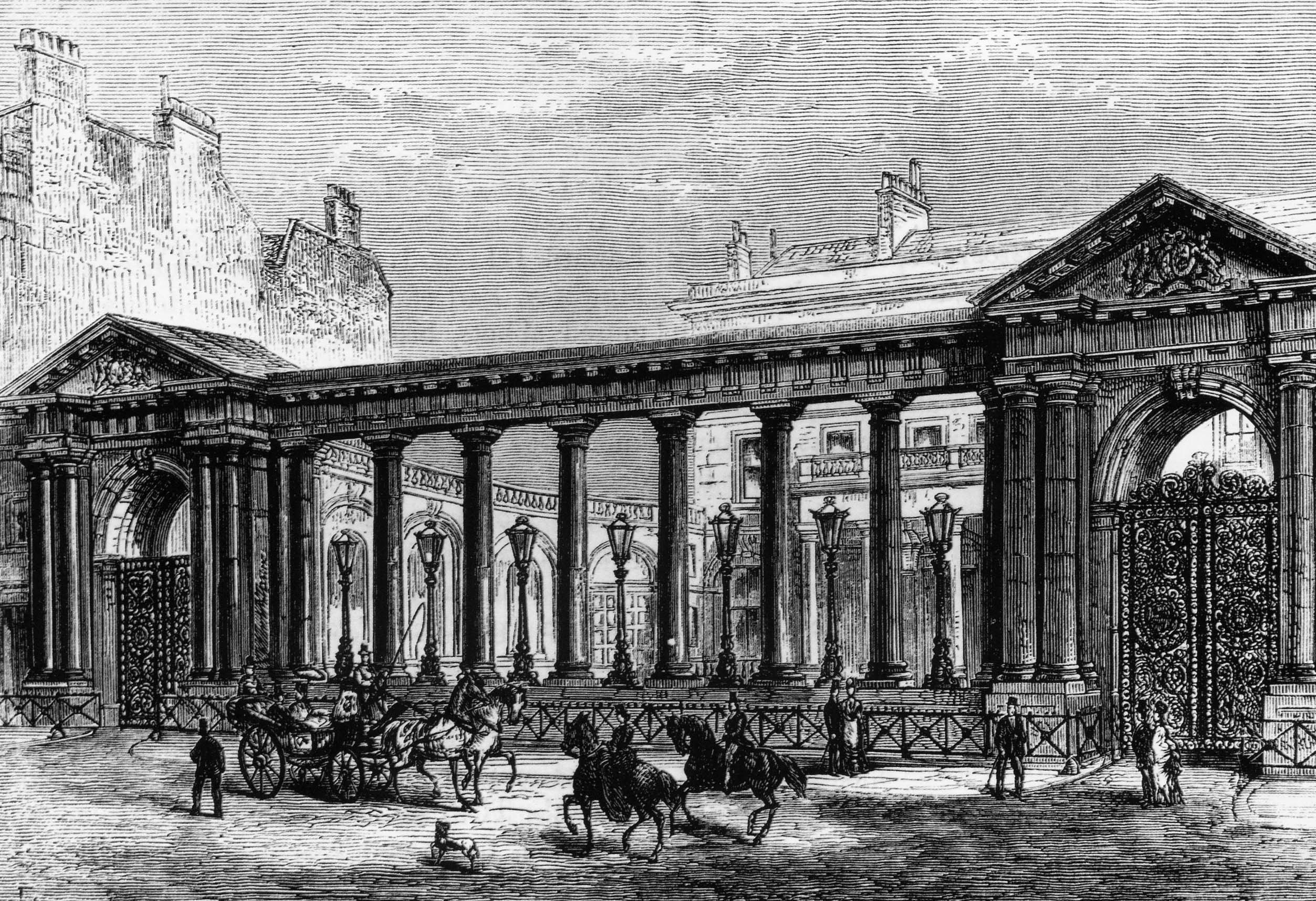 Engraving of the facade of Grosvenor House, London